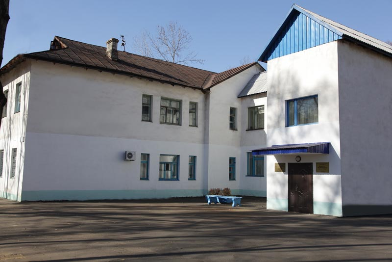 Hospital of Saint Panteleimon